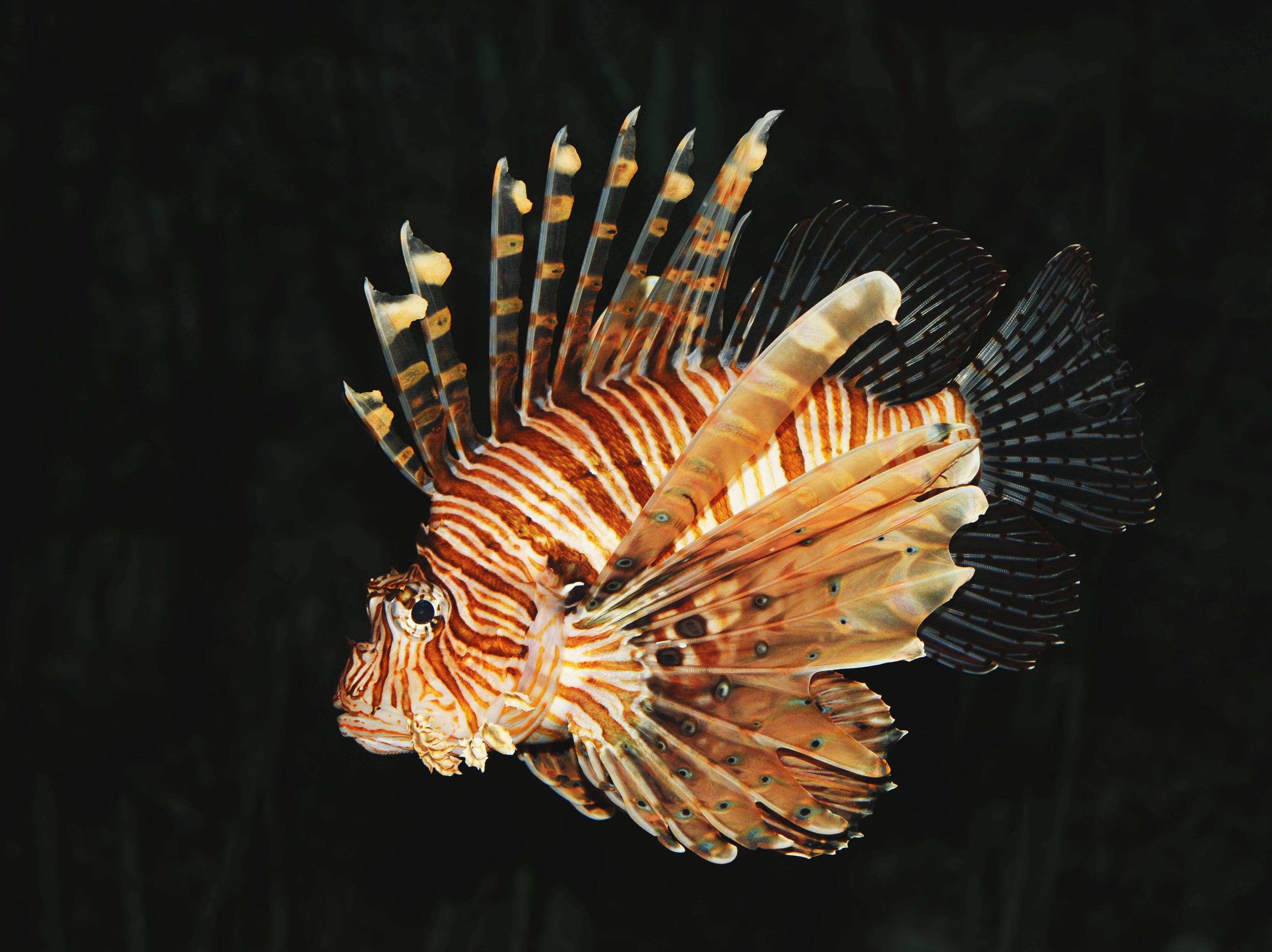 Red lionfish at the Aquazoo (aquarium) in the Zoo Schmiding in Schmiding near Bad Schallerbach, Austria.